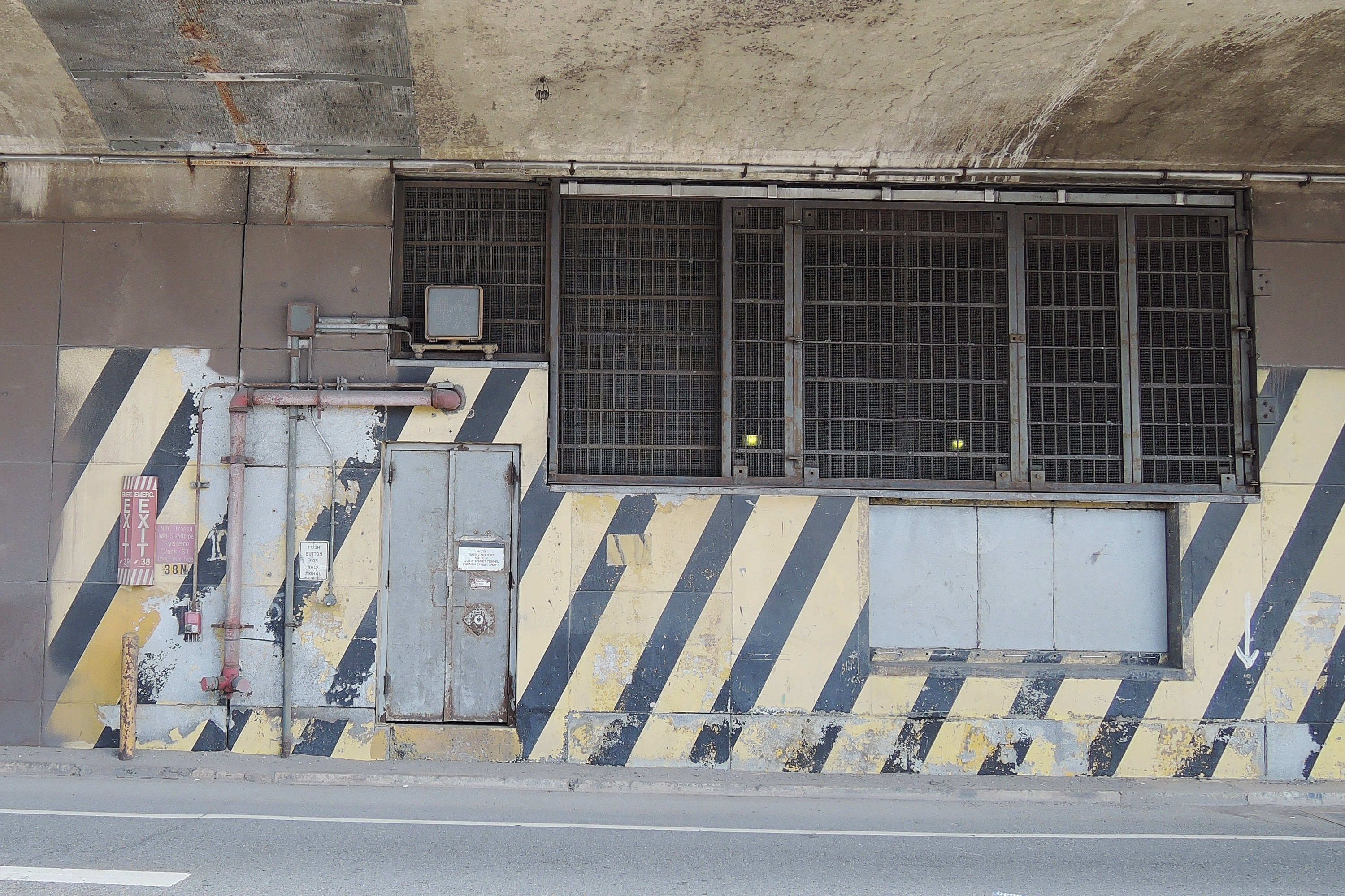 Looking east across Furman Street at Clark Street ventilator.